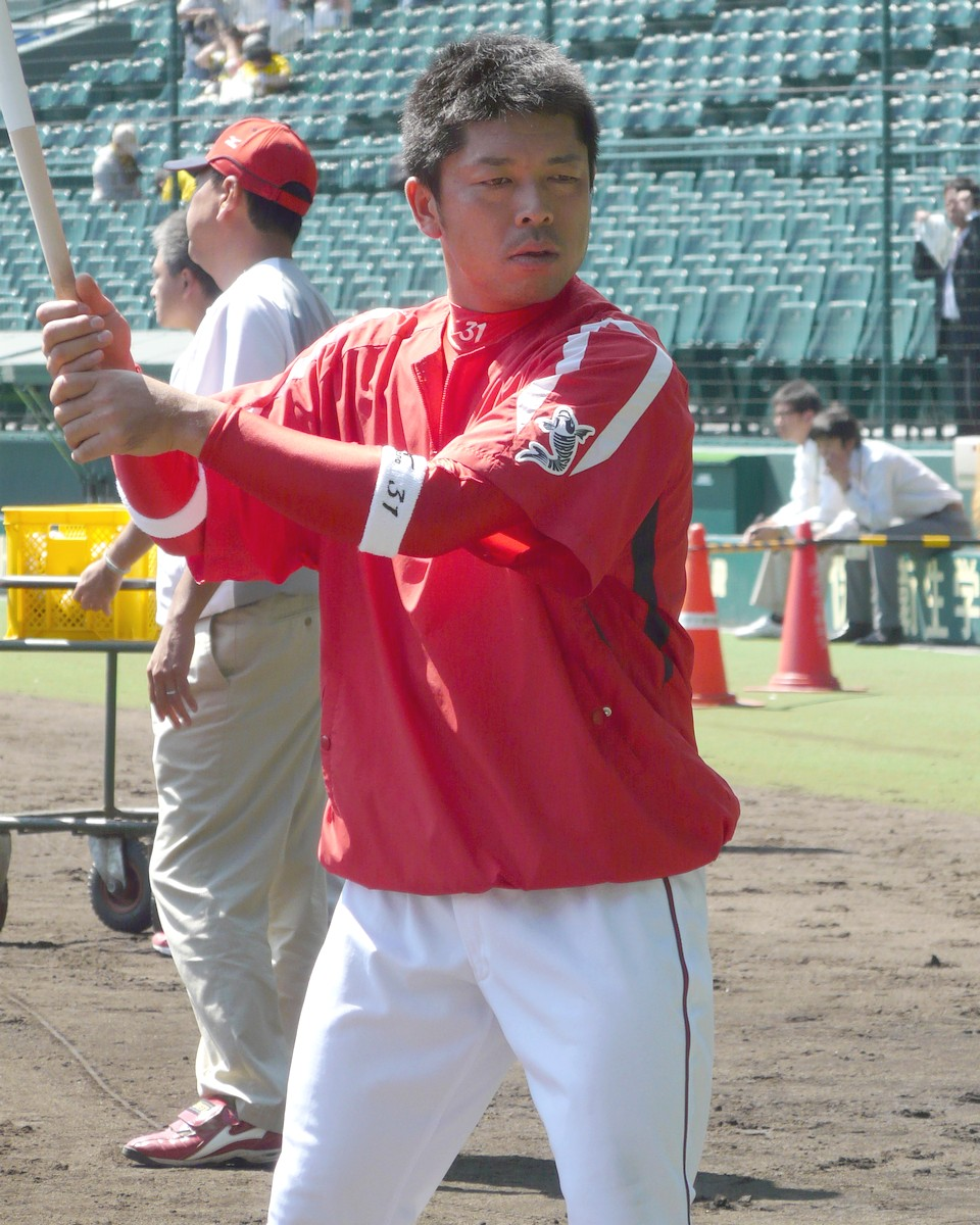 Yoshiyuki Ishihara, catcher of the Hiroshima Toyo Carp, at Hanshin Koshien Stadium.